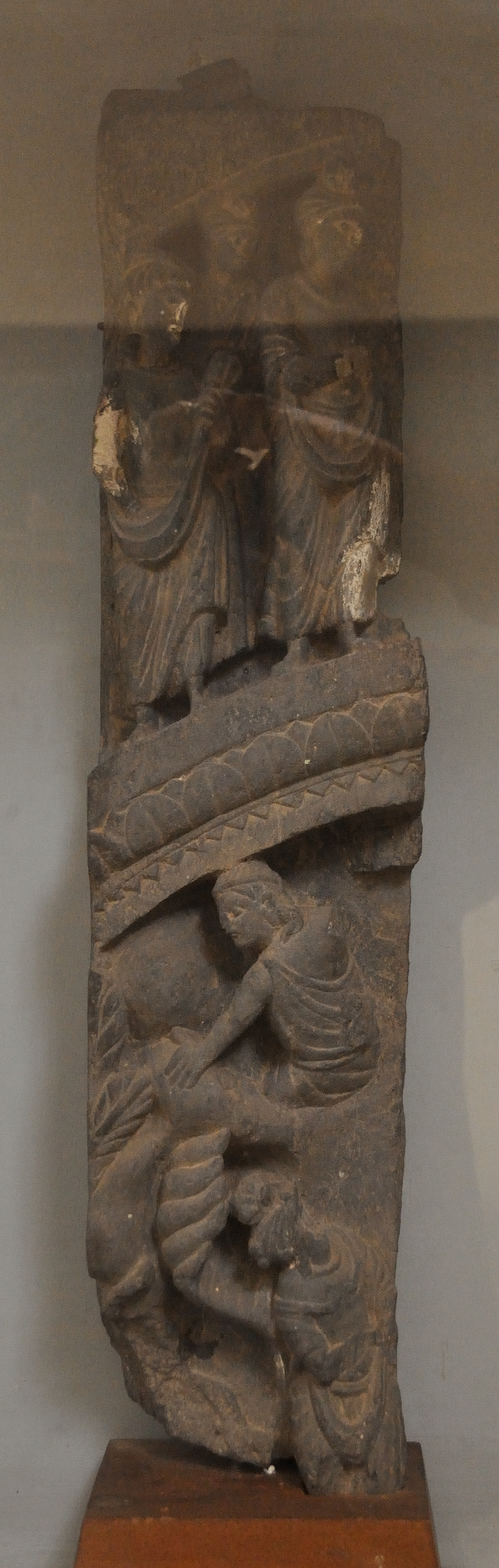 This artefact resides at the Government Museum, (hi: Rashtriya Sangrahalaya) formerly The Curzon Museum of Archaeology, Museum Road or Murari Lal Rajpal road, Dampier Nagar, Mathura, Uttar Pradesh, India. This museum is administrating by the State Government of Uttar Pradesh of India.